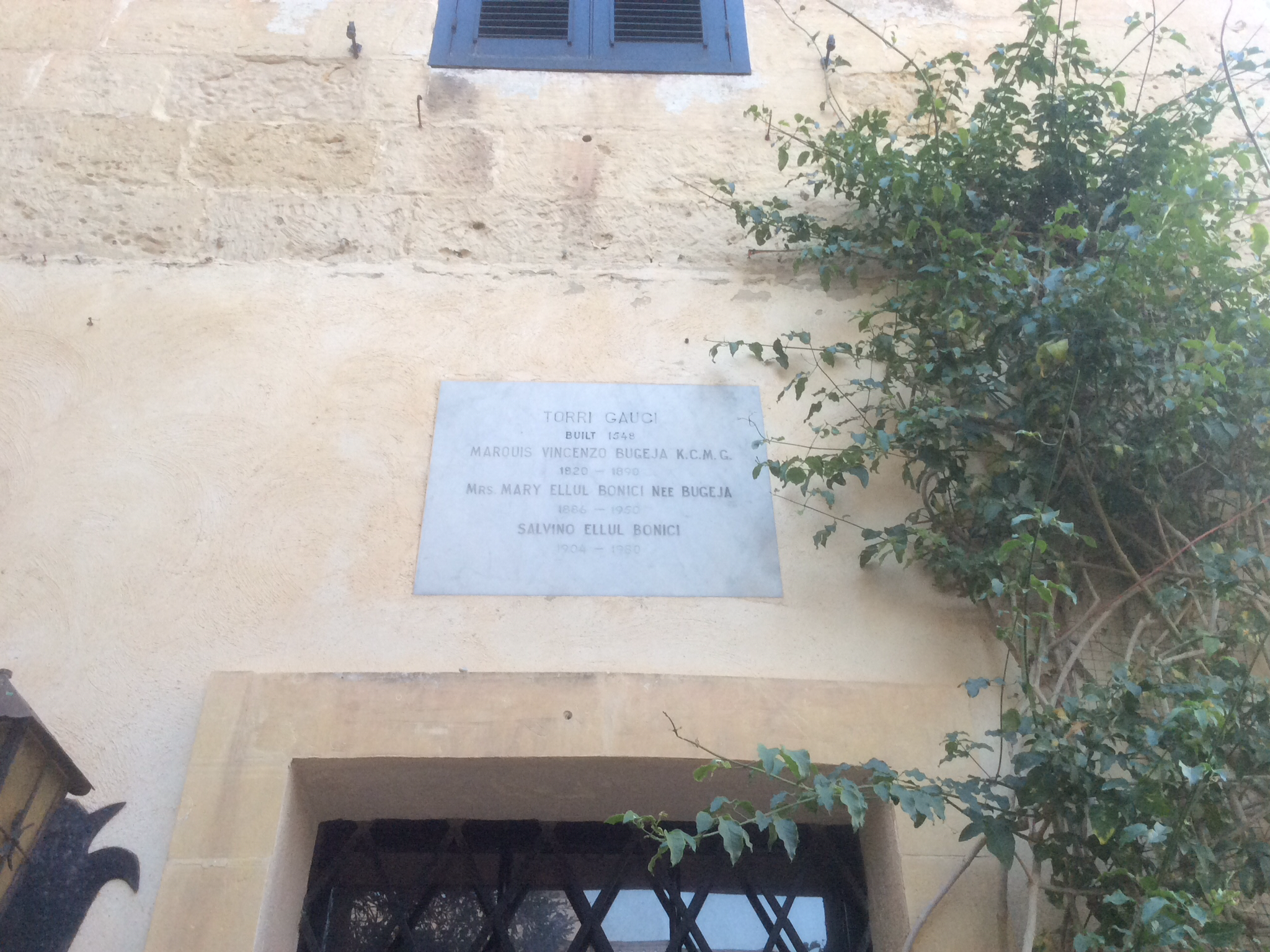 Plaque on Gauci's House, showing to whom the Gauci tower and house belonged in various periods